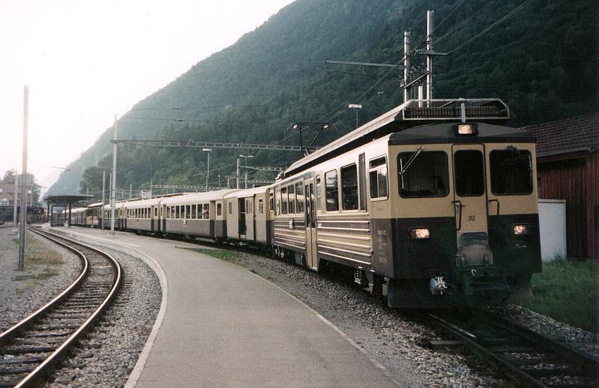 A train of the Berner Oberland-Bahn in Interlaken, switzerland Source: Martin Hawlisch (User:LosHawlos) My own photo